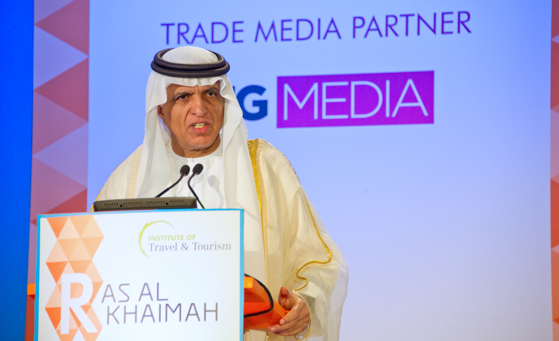 Sheikh Saud at ITT Media Event